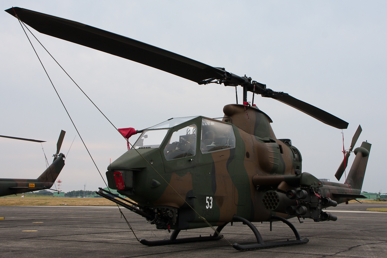 Aircraft: Fuji & Kawasaki Heavy Industries AH-1S(sn:73453) Squadron: JGSDF Aviation School / 02SQ(陸上自衛隊航空学校本校 / 第2教育部) Base: JGSDF Camp Akeno(RJOE) Mie-ken, Japan 17/10/2010 JASDF Hamamatsu AB, Japan